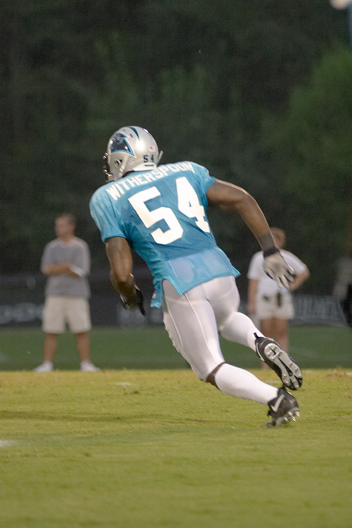 American football linebacker Will Witherspoon at training camp for the Carolina Panthers